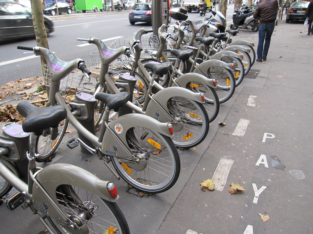 Vélib (combining vélo, or bicycle, with libre, or free) is a city program that allows registered subscribers to rent a bike for free at automated rental stations like this. As long as the bike is returned to another rental station within 30 minutes, there is no cost. Using a series of Vélib bicycles, it is possible to cover large distances within Paris without spending anything. I love this idea.